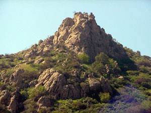 A view of the north face of Escorpión Peak or Castle Peak — in the Simi Hills, within El Escorpión Park. Located in West Hills in the western San Fernando Valley — Southern California. A Sacred mountain of the Chumash people.